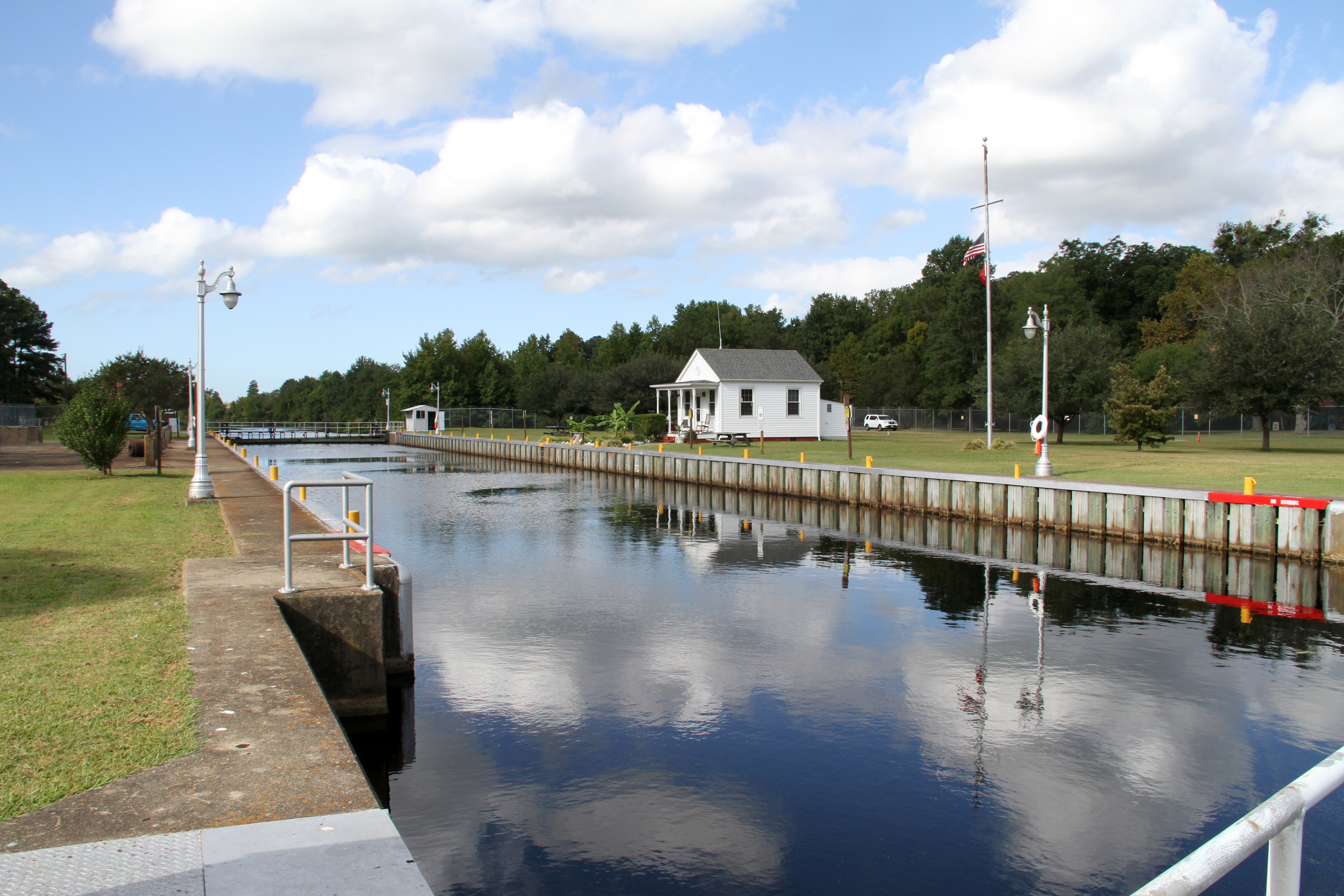 CHESAPEAKE, Va. -- Lockmaster Robert Peek maintains Deep Creek's 25-acre site named for the Corps of Engineers' lock which separates the salt water of Deep Creek from the fresh water of the historic Dismal Swamp Canal. It is heavily wooded with a combination pedestrian bridge/elevated walkway system to traverse a tidal inlet and marsh area. More than 600 vessels go through the lock each year. (U.S. Army photo/Pamela K Spaugy)